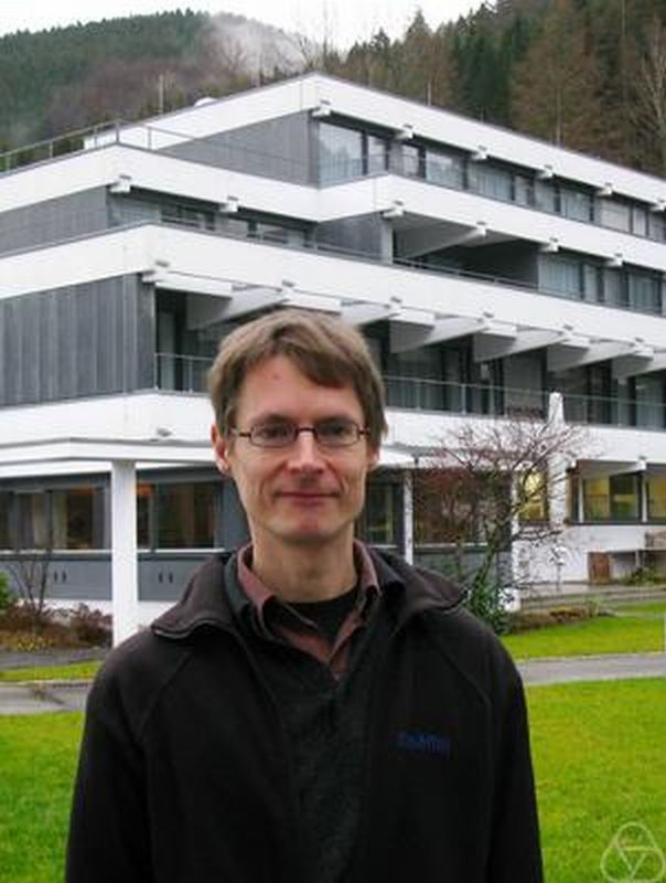 Ansgar Jüngel, Oberwolfach 2011